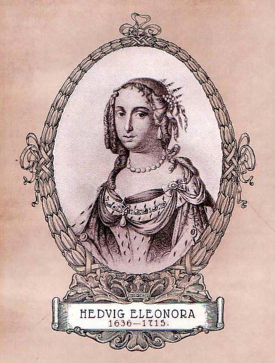 Queen Hedwig Eleanor of Sweden (1636-1715)